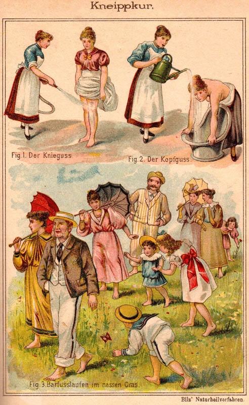 Kneipp cure - illustration in a book published in 1894.